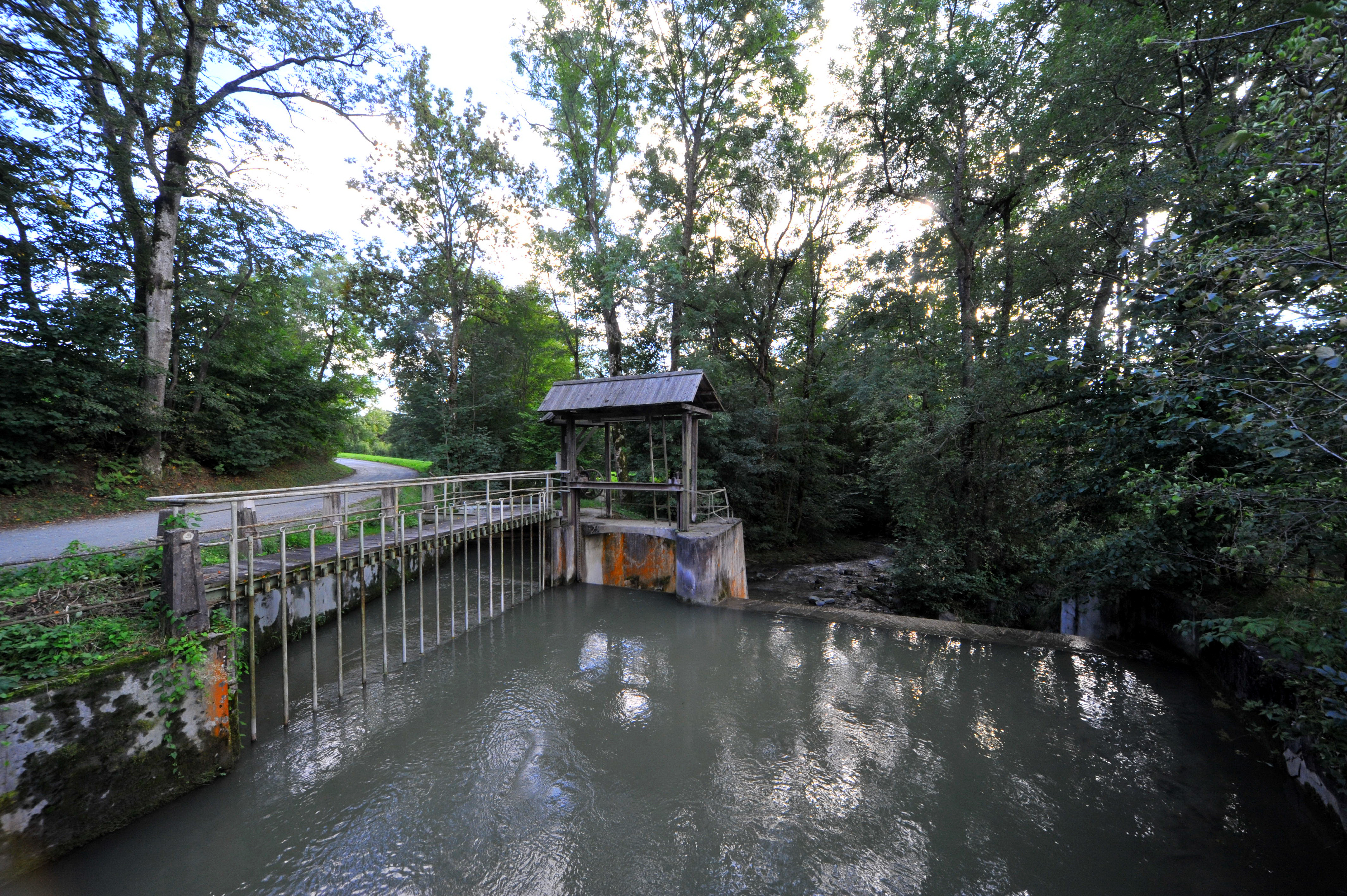 Weir on the river Tiebel in Feistritz, municipality of Feldkirchen, district Feldirchen, Carinthia, Austria, EU